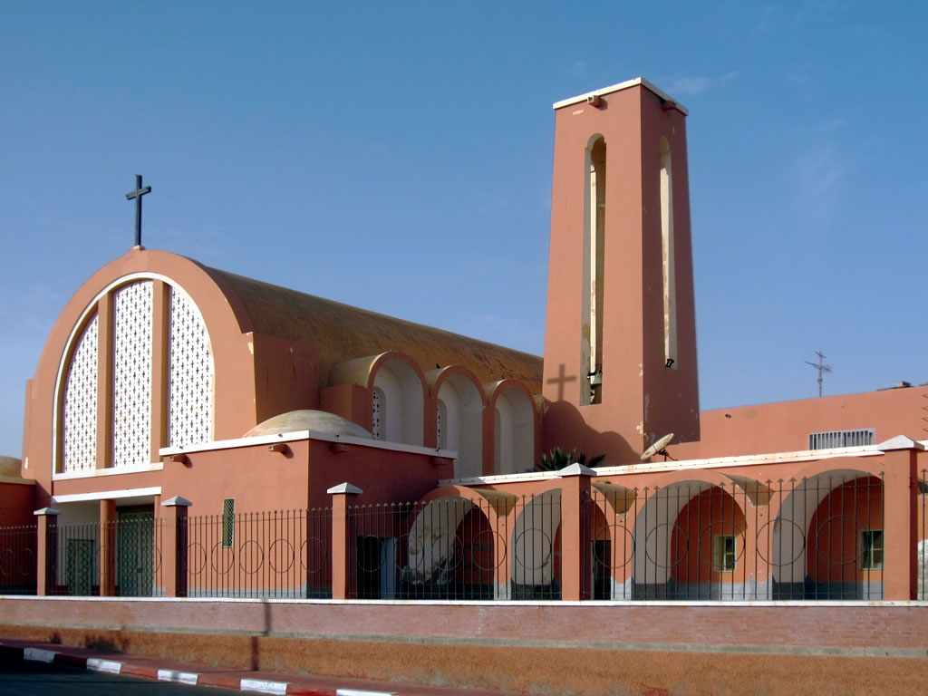 Saint Francis of Assisi Cathedral, El Aaiun, Western Sahara